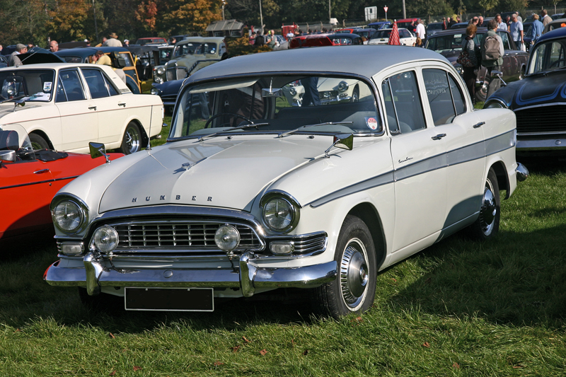 Humber Super Snipe Series II. In 1959 the Series II Super Snipe was launched with the Armstrong Siddeley design 2,651 cc, six-cylinder overhead-valve engine enlarged to 2,965 cc.